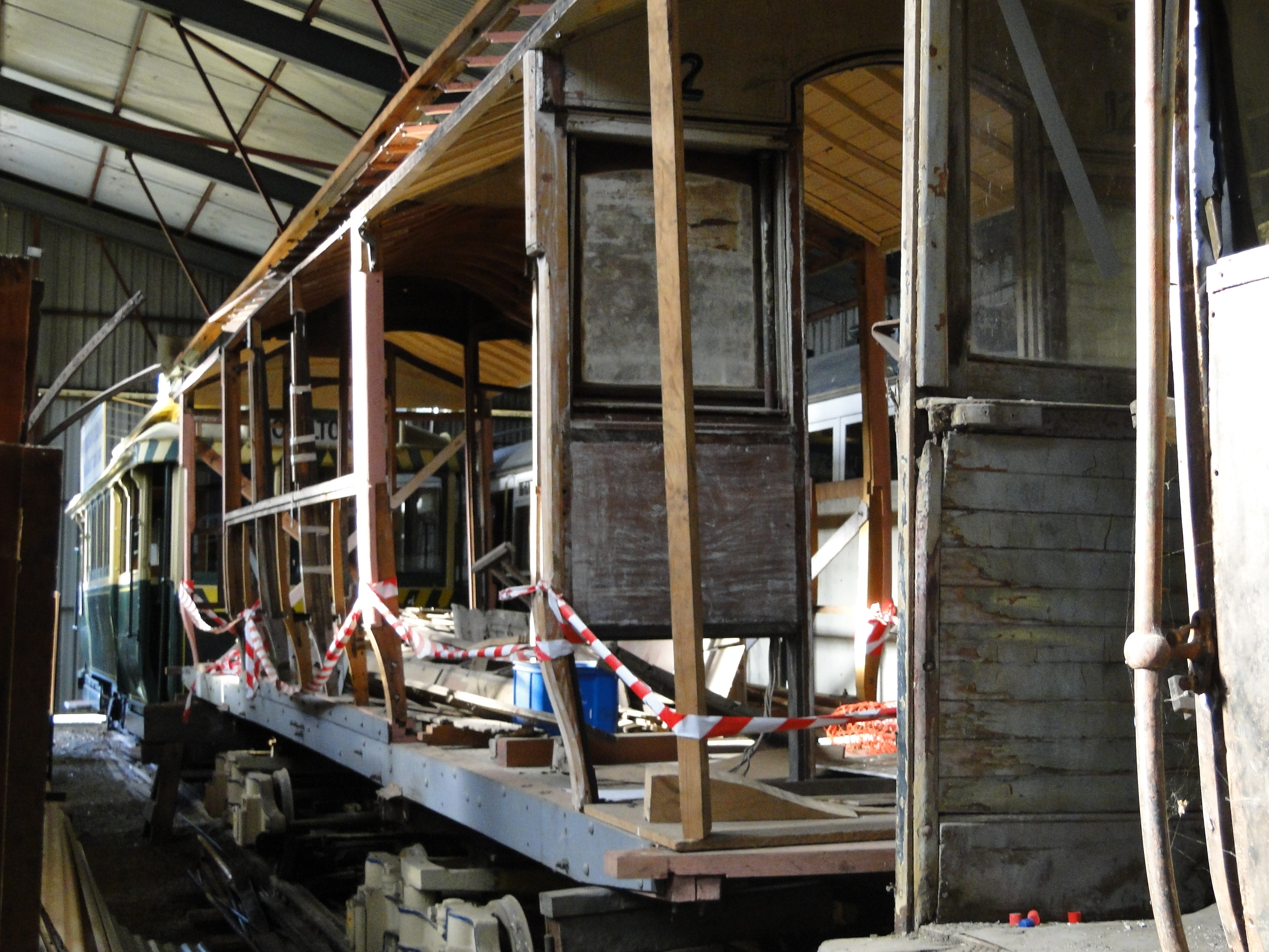 A tram, an Electric Supply Co. of Victoria tram, Tram 12, being rebuilt in the Ballarat Tramway Museum Depot, at Lake Wendouree, Victoria, Australia. This was one of Ballarat's original electric trams built in 1905.